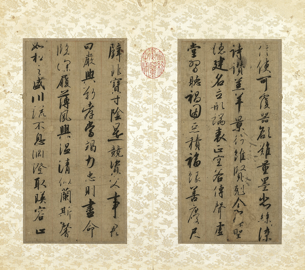 The characters are done in a strongly archaic manner, are slightly thin and elongated, and are written with distinct thickness in lines.